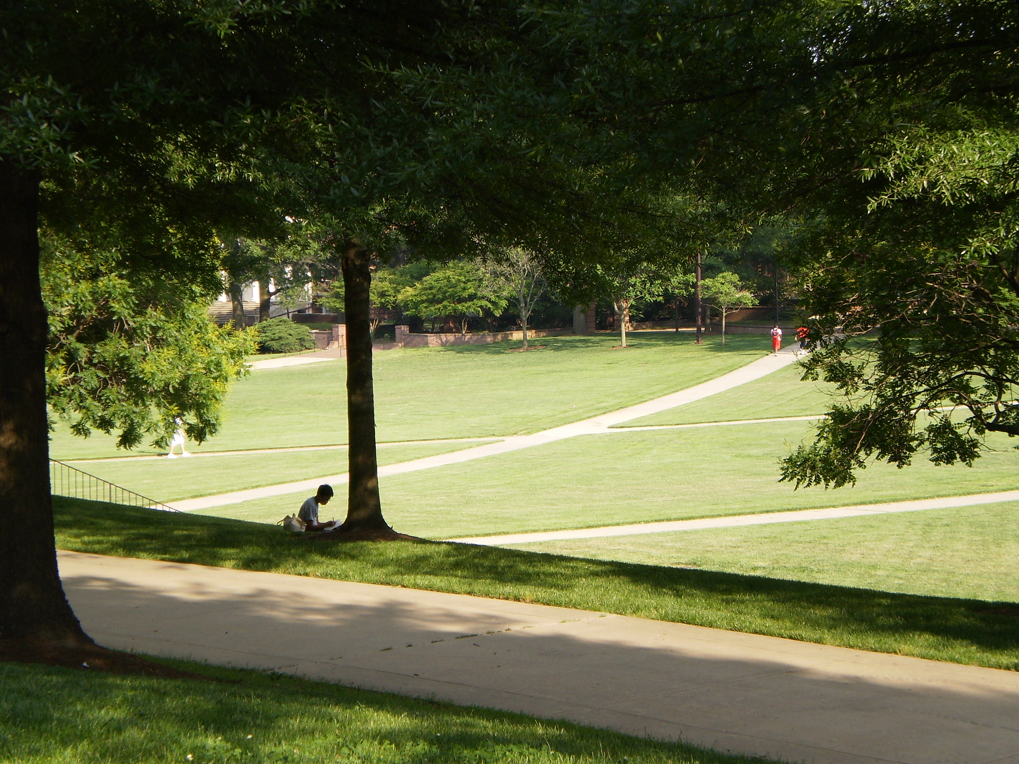 Student relaxing on the main mall on the campus of the University of Maryland, College Park.